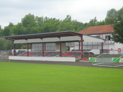 Matthias Goerigk selbst fotografiertes und bearbeitetes Foto (mit SONY Cybershot)